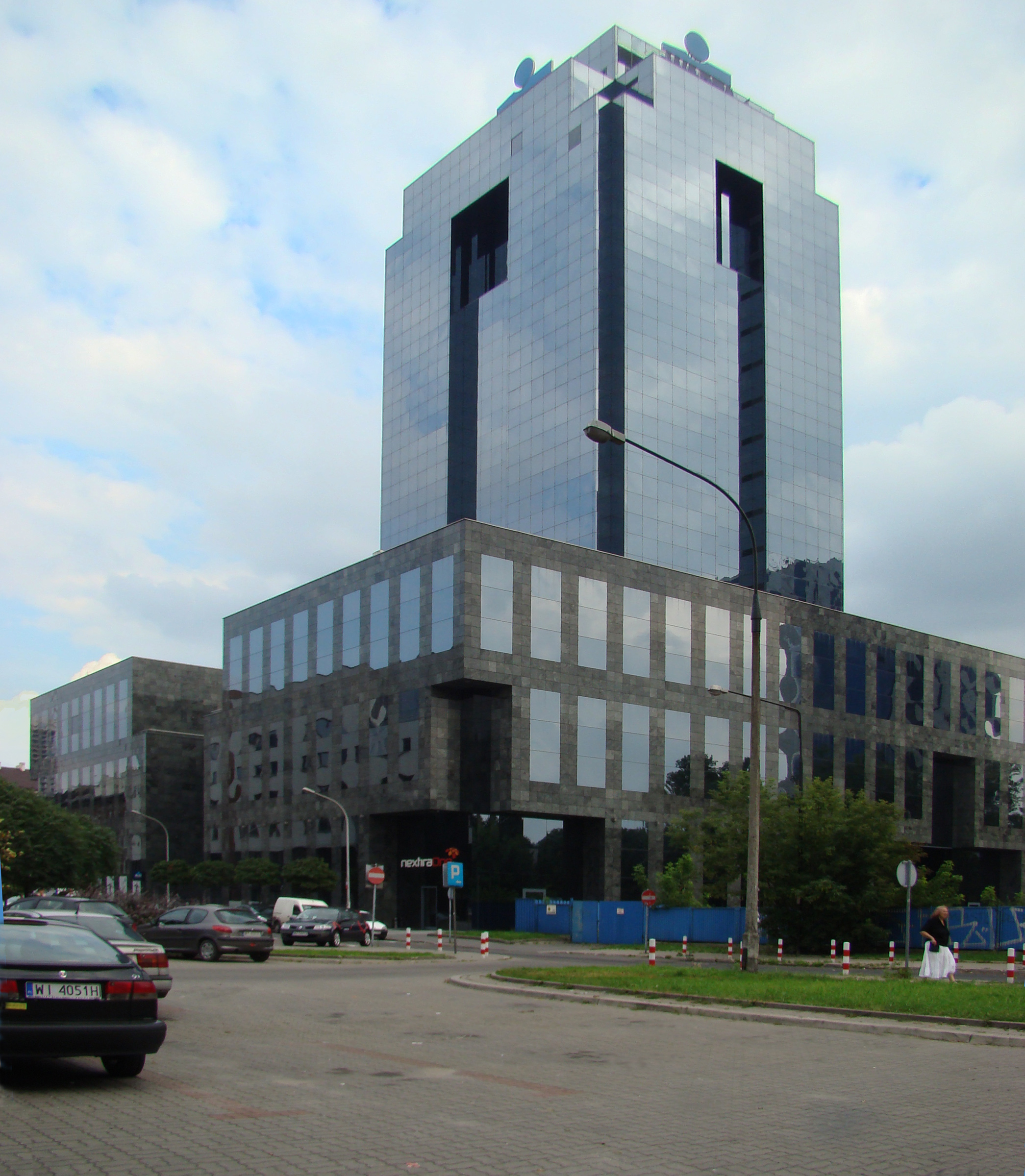 Warta Tower, Warsaw, Chmielna St.